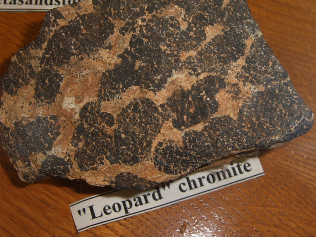 Leopard chromite, Museum of rocks and minerals, Faculty of Mining and Geology, Belgrade